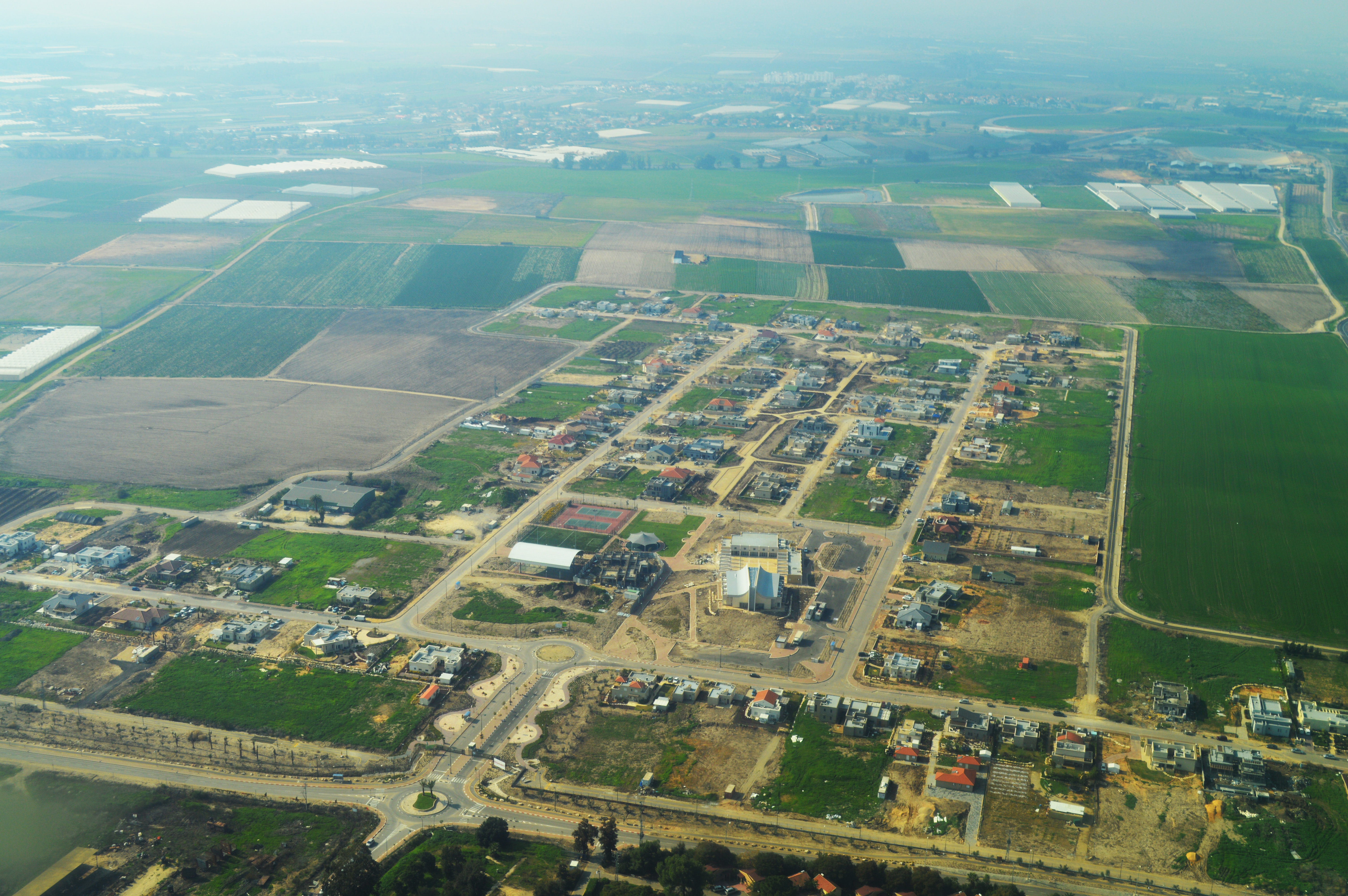 Ganei Tal (New) Aerial View